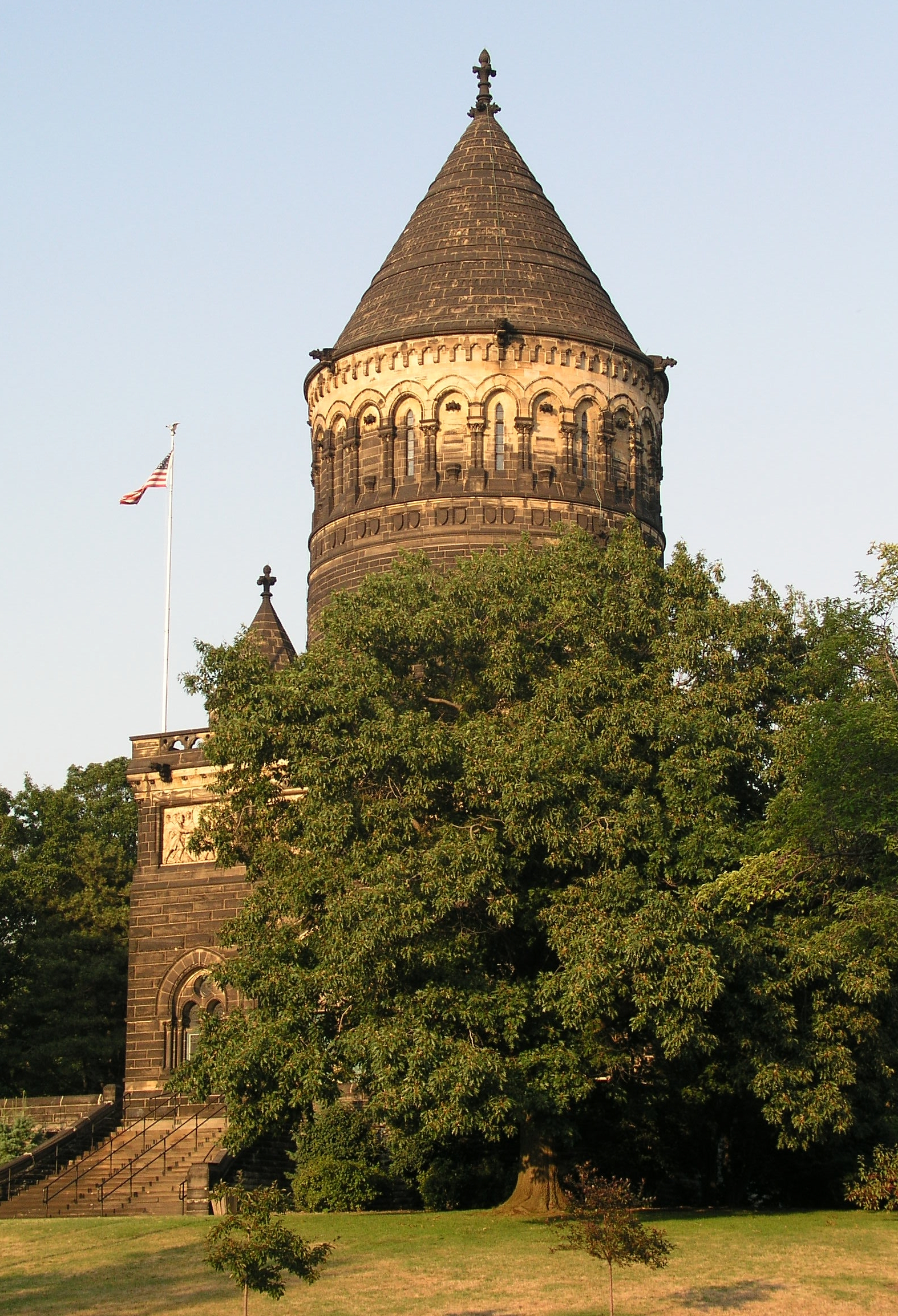 Garfield (US president) monument, Lake View Cemetery, Cleveland Ohio, USA